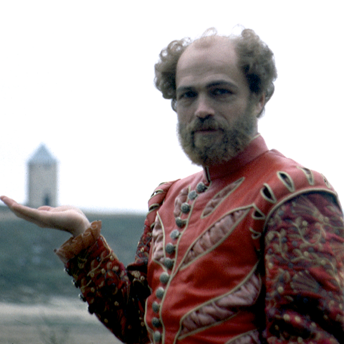 La Mancha, Spain